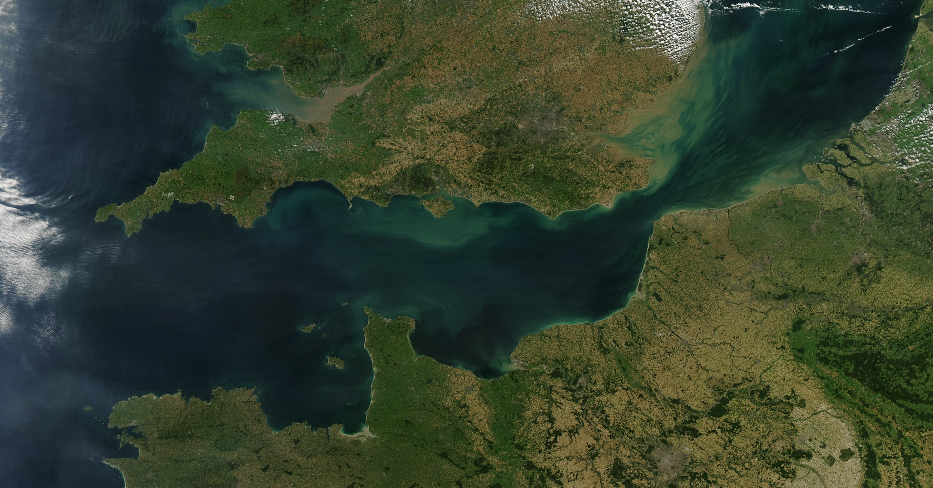 Satellite image of the English Channel